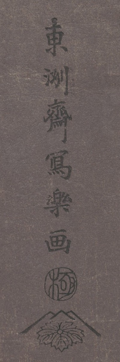 "Tōshūsai Sharaku ga"—the signature of Tōshūsai Sharaku on his print File:Sharaku (1794) Morita Kanya VIII as Uguisu no Jirōsaku in the Play Katakiuchi Noriaibanashi.jpg